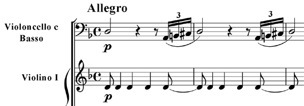 Mozart - Piano Concerto No.20 in D Minor K466 - 1st Movement opening